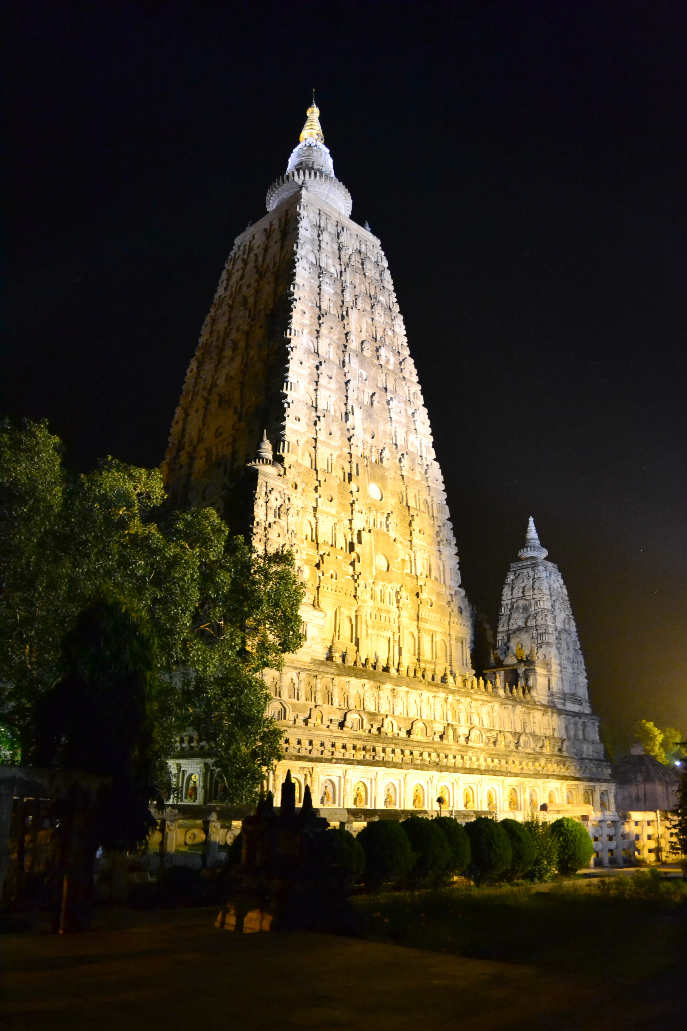 The Mahabodhi temple in Bodhgaya, India.